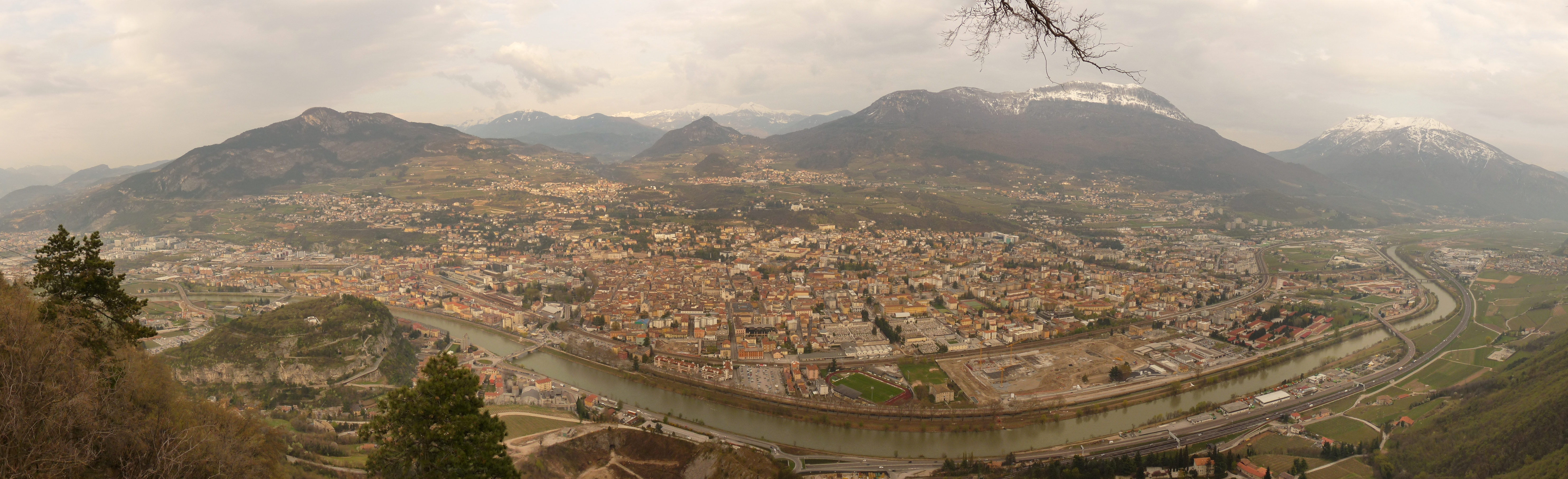 Trento (Italy): panorama from Sardagna